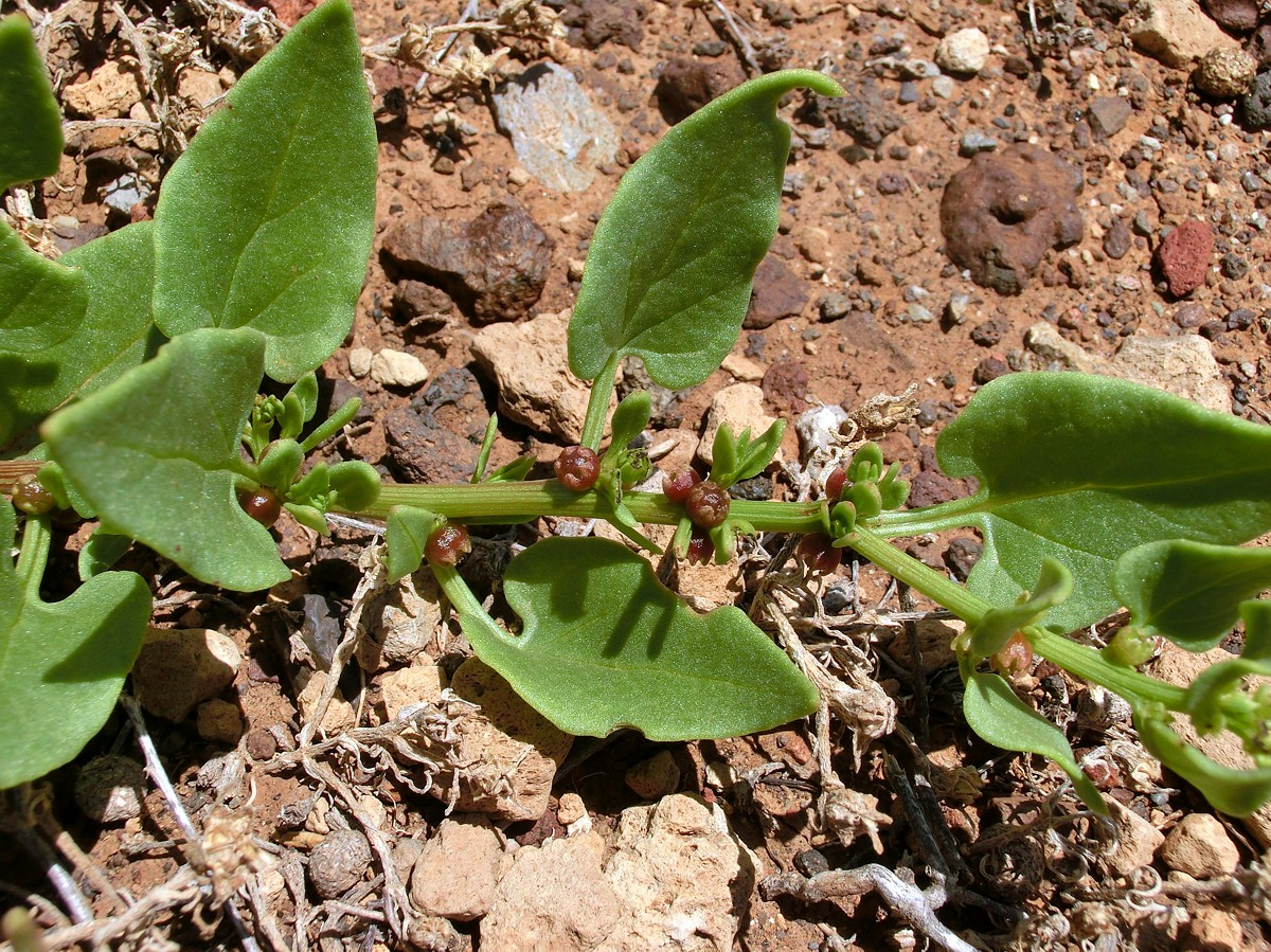 Patellifolia patellaris. NW Tenerife, Teno Bajo near Punta de Teno, open coastal succulents shrubland, ca. 20 m above sea level.